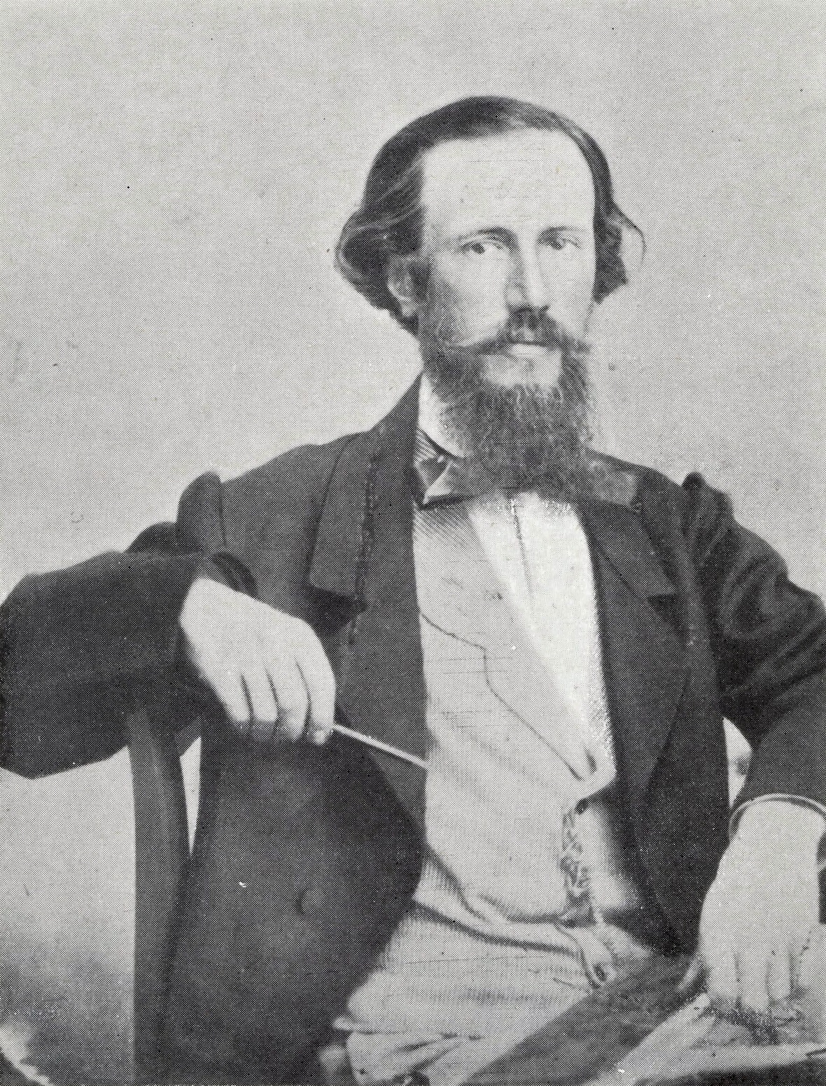 Photo of Arthur John Strutt